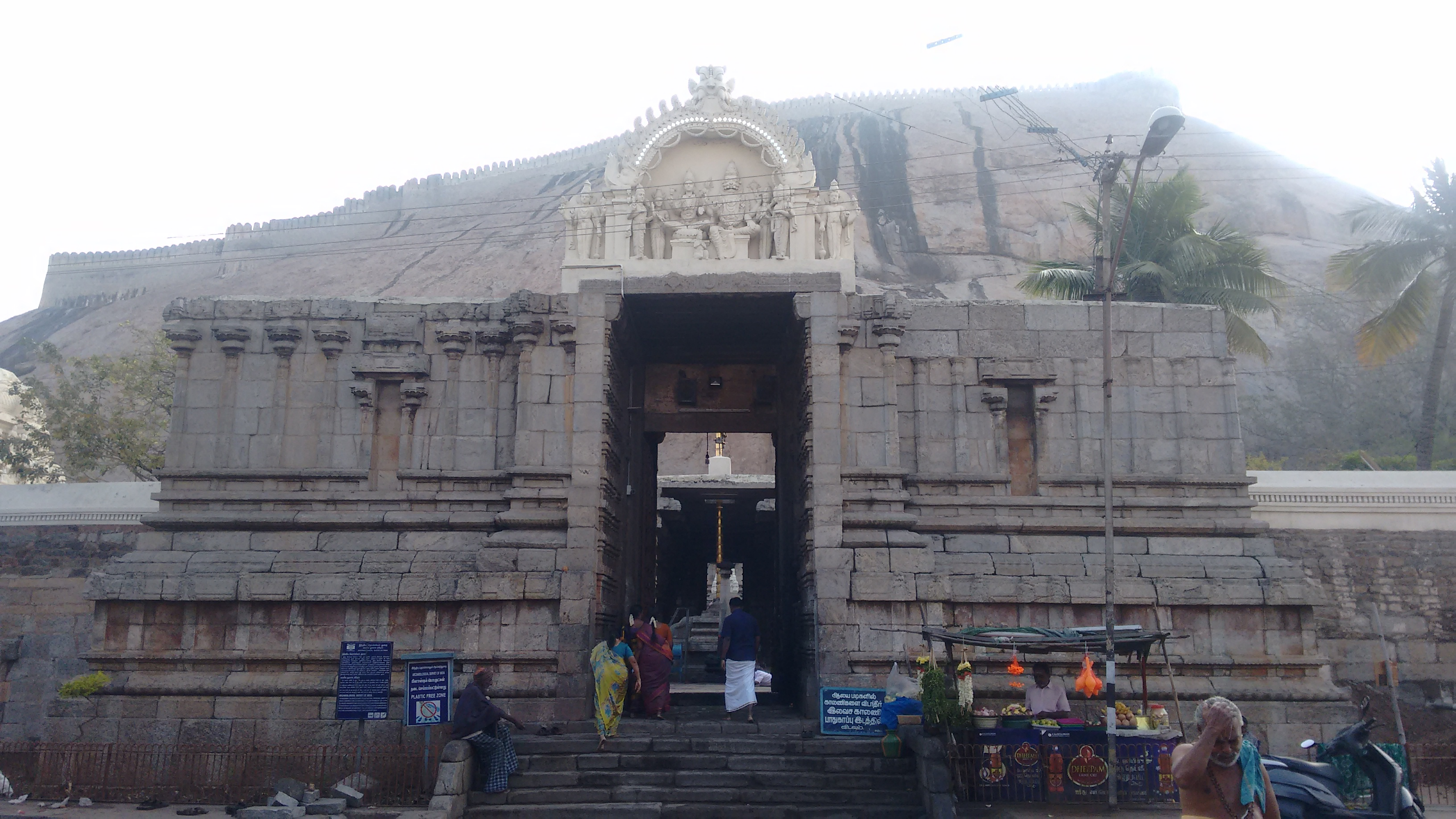 Namakkal narasimhar temple நாமக்கல் நரசிம்மர் கோயில்